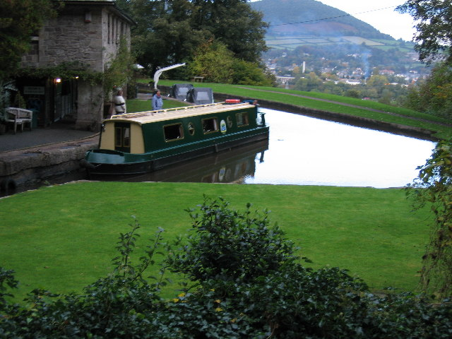 Monmouthshire and Brecon Canal, near Llanfoist. The Beacon Park Boats wharf with Abergavenny in the background